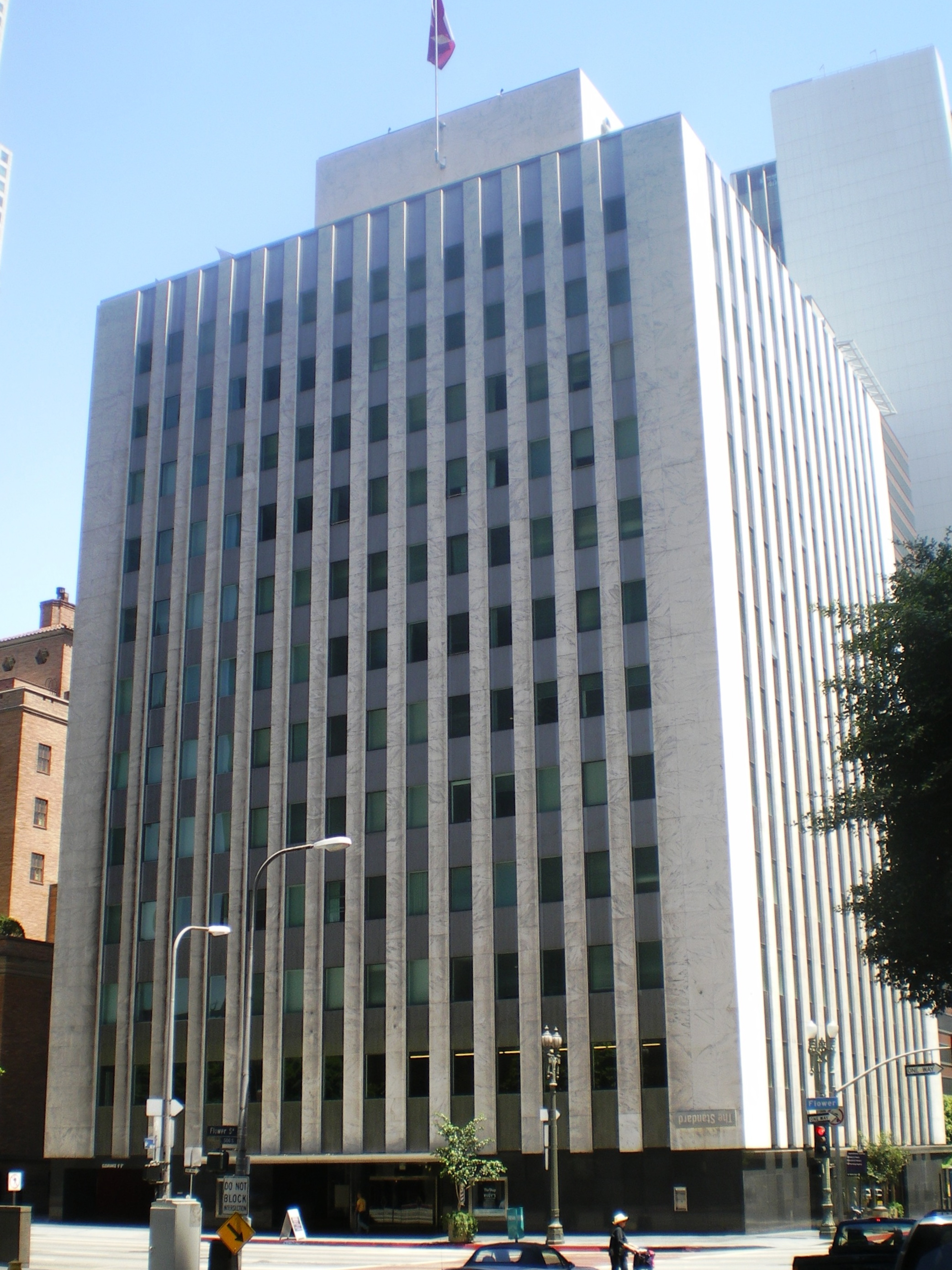 Superior Oil Company Building (present day Standard Hotel), 550 S. Flower St., Downtown Los Angeles, California